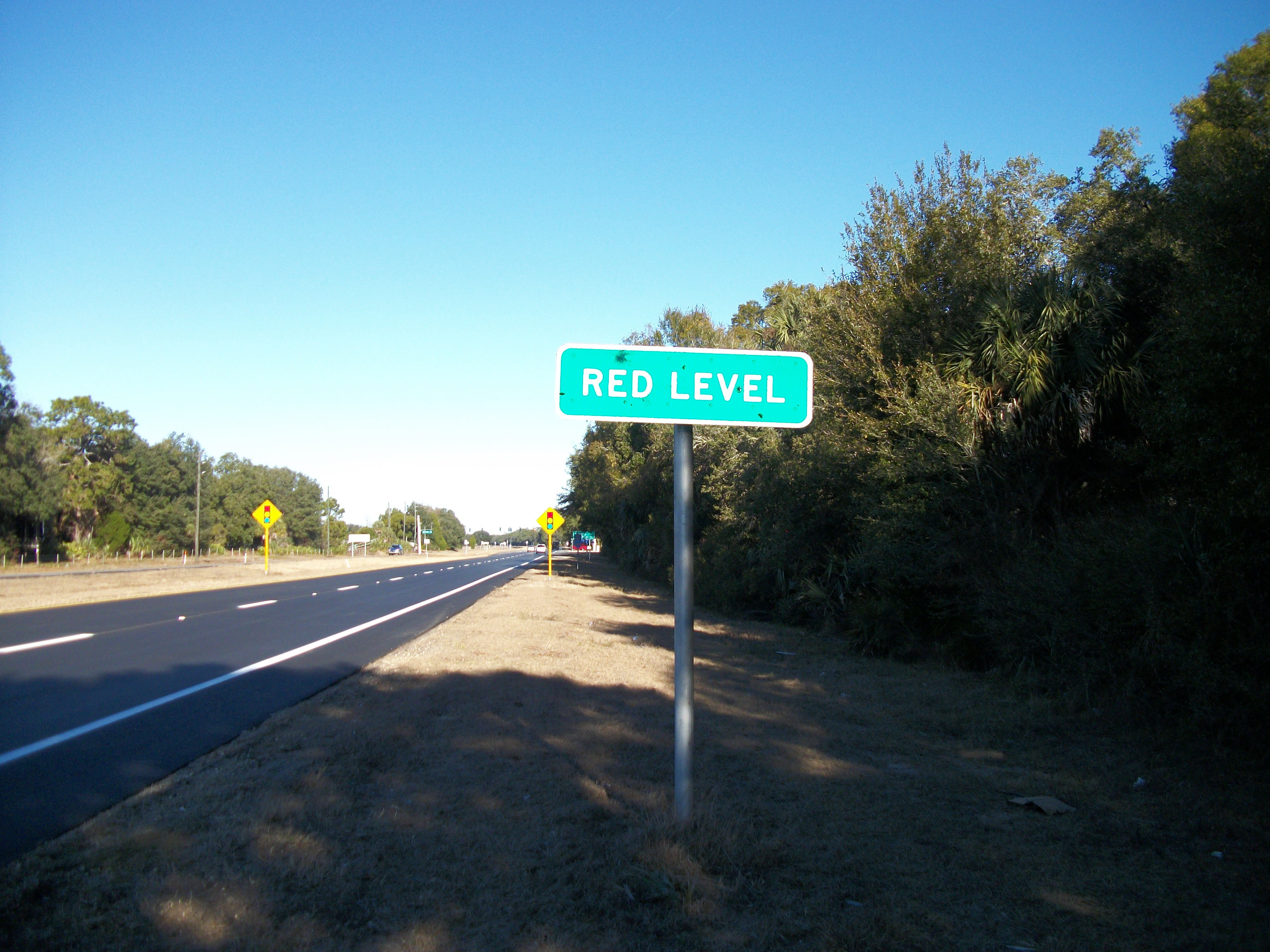 A shot of northbound US 19-98 as it enters the unincorporated community of Red Level, Florida in Citrus County, Florida, north of Crystal River, Florida. I originally thought this shot was too light, so I took a second one, hence the "1" in the name.